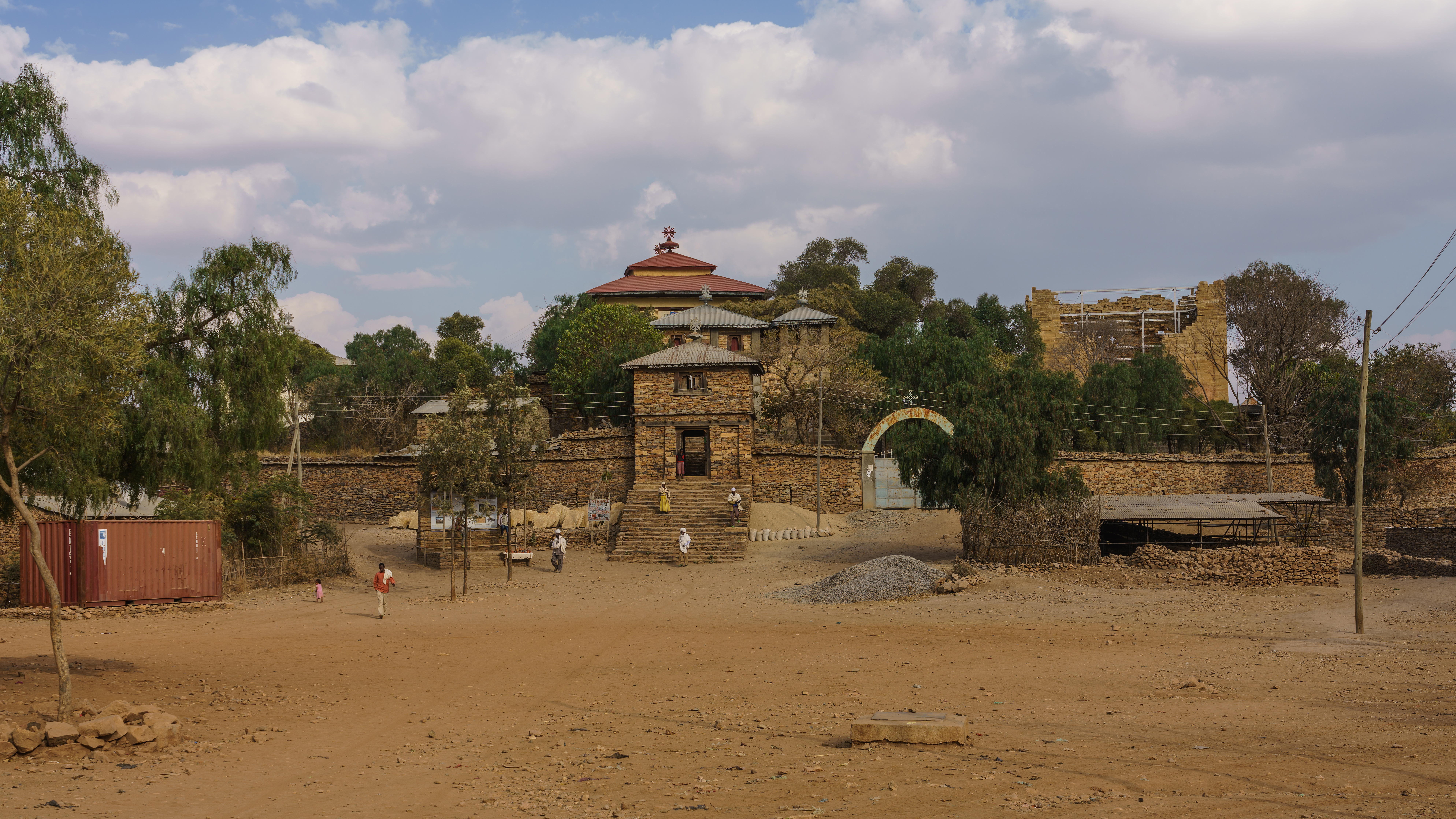 Monastery of Yeha in Tigray Region, Ethiopia